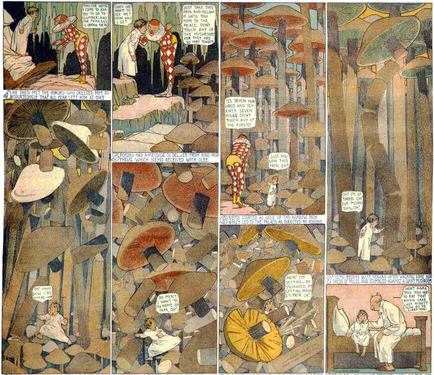 Bottom half of 1905-10-22 Little Nemo in Slumberland comics strip by Winsor McCay. Panels expand and shrink along with the growing mushroom forest.